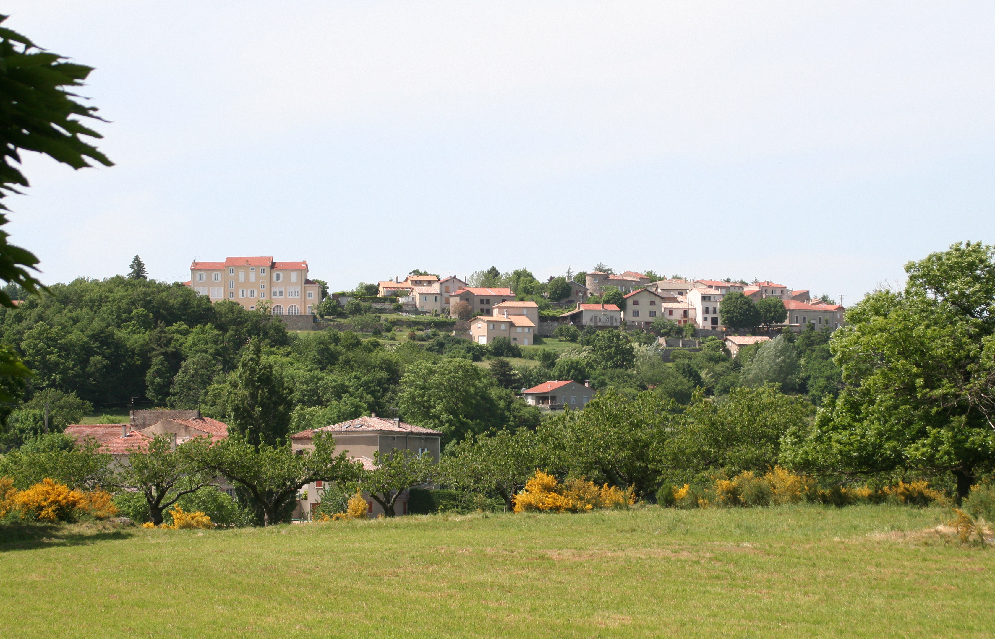 The village of la Bâtie de Crussol